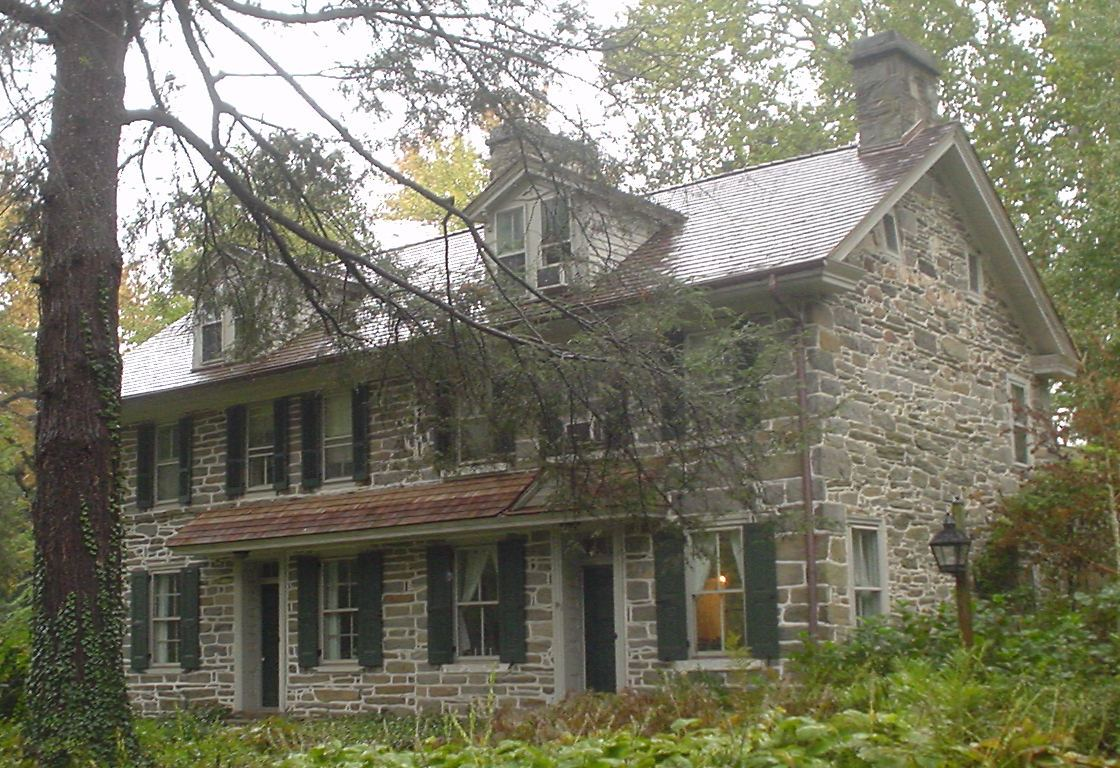 Ogden House on NRHP in Swarthmore PA, near corner of Cedar and Swarthmore Roads.